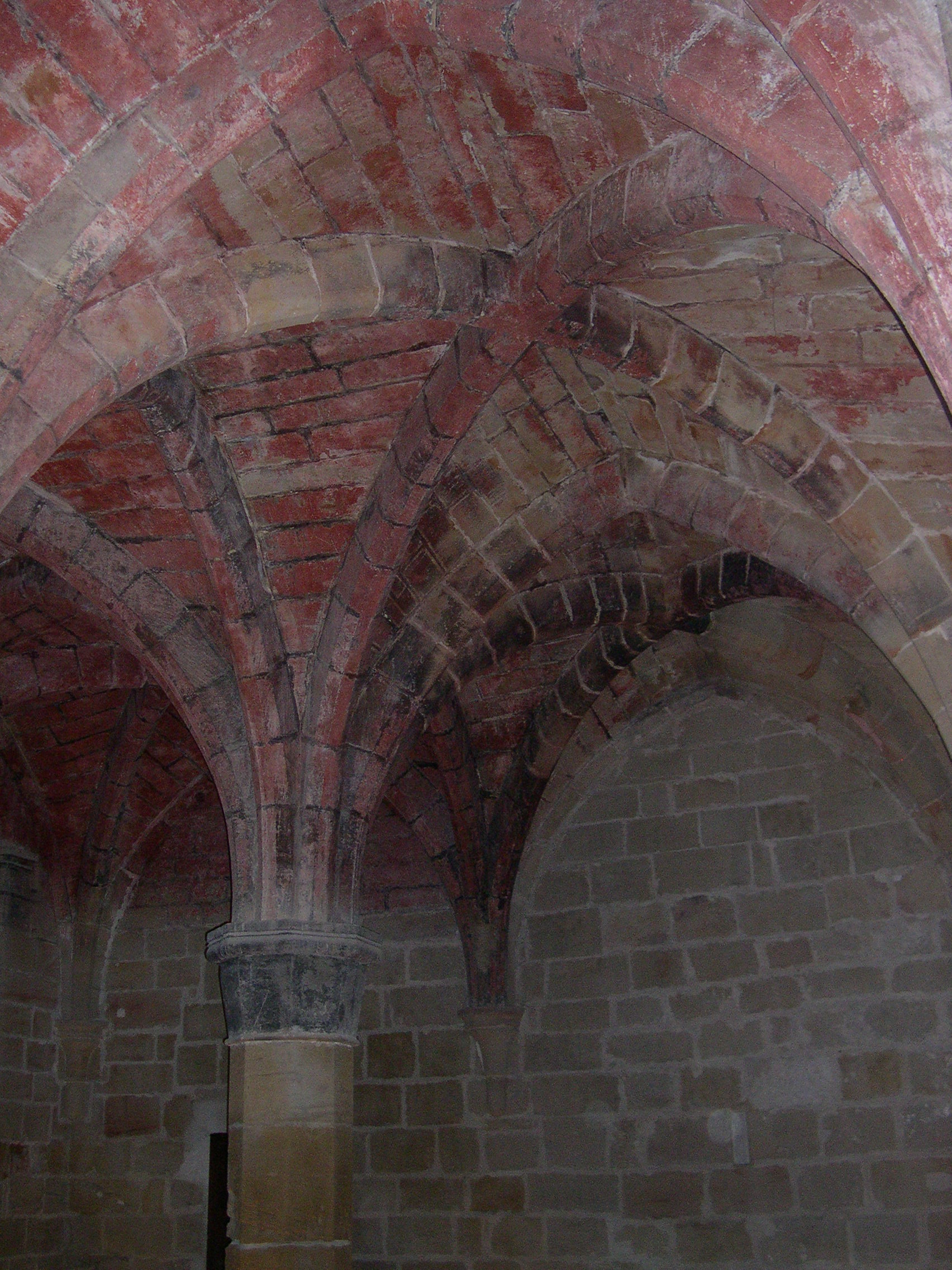 Interior view, Ruedda Abbey.